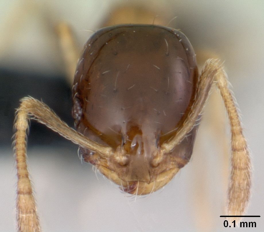 Head view of ant Monomorium floricola specimen casent0064821.